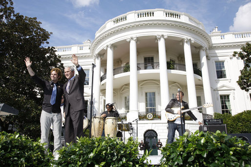 President George W. Bush is joined by Colombian musician Andres Cabas as they wave to invited guests, following Cabas and his band's performance Thursday, Oct. 9, 2008 on the South Lawn of the White House, during the celebration of Hispanic Heritage Month.